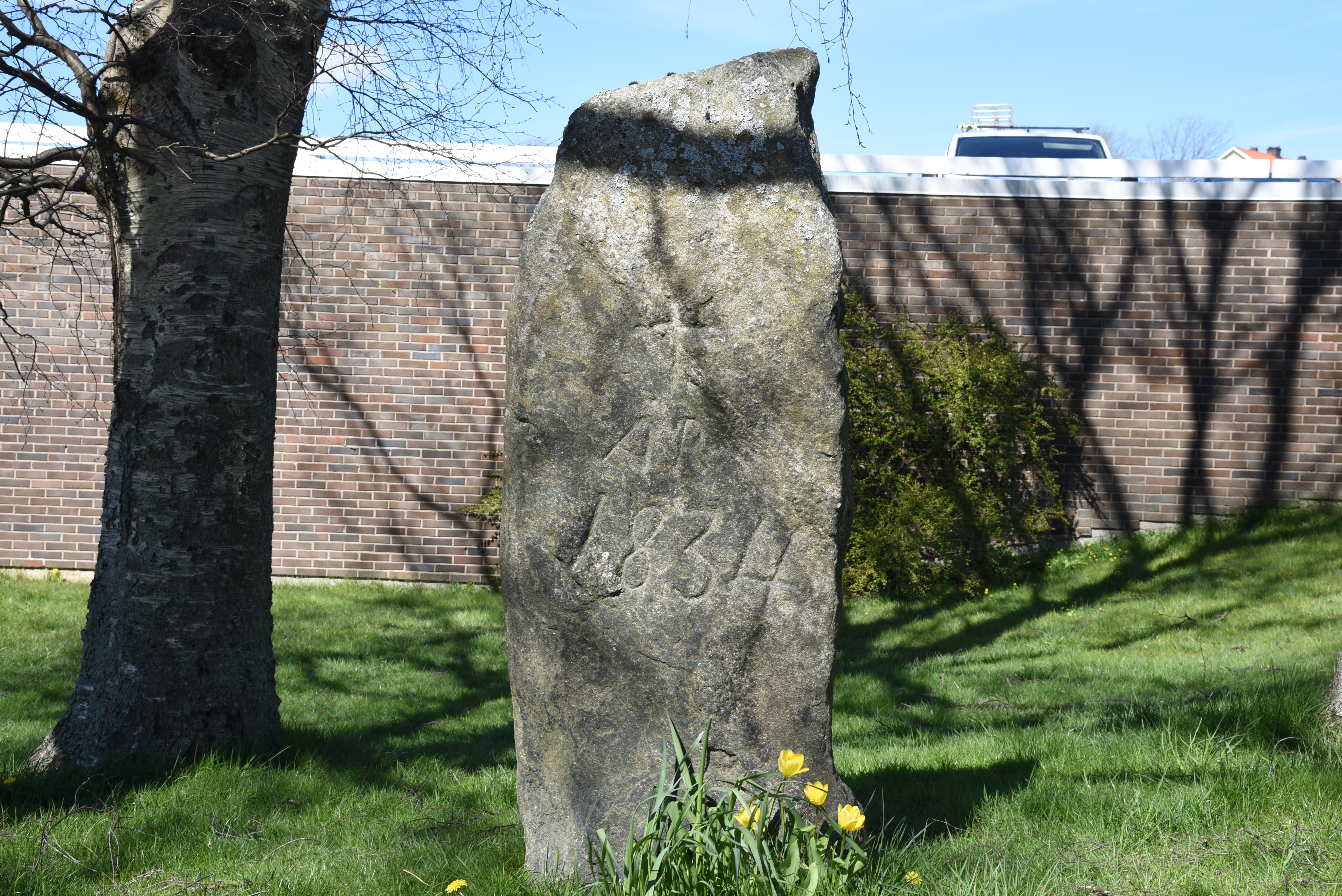 The cholera graveyard in Lunden, Gothenburg, established in 1834.